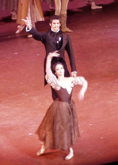 Roberta Marquez (Tatiana) and Thiago Soares (Onegin) in John Cranko's Onegin.